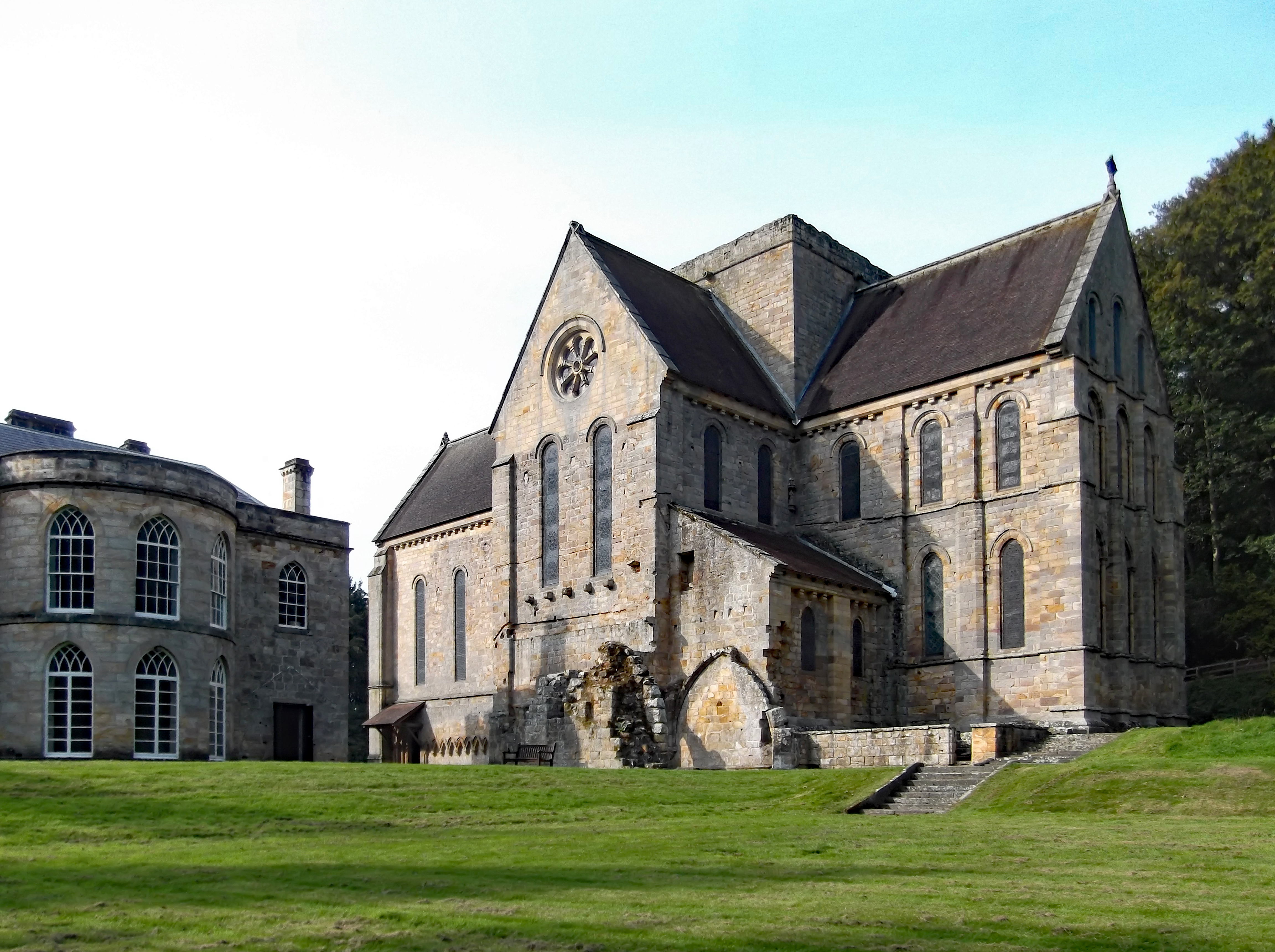 Photograph of Brinkburn Priory, Northumberland, England